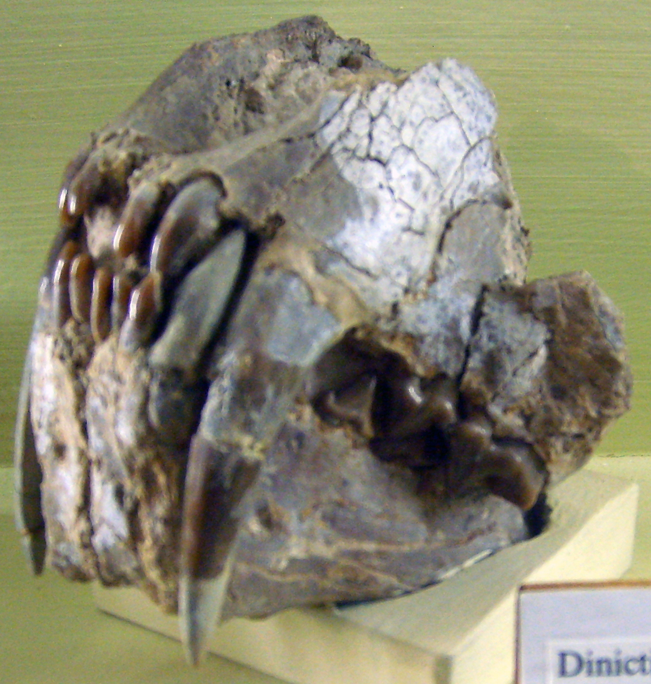 Front part of a Dinictis felina skull at the Museum für Naturkunde, Berlin.